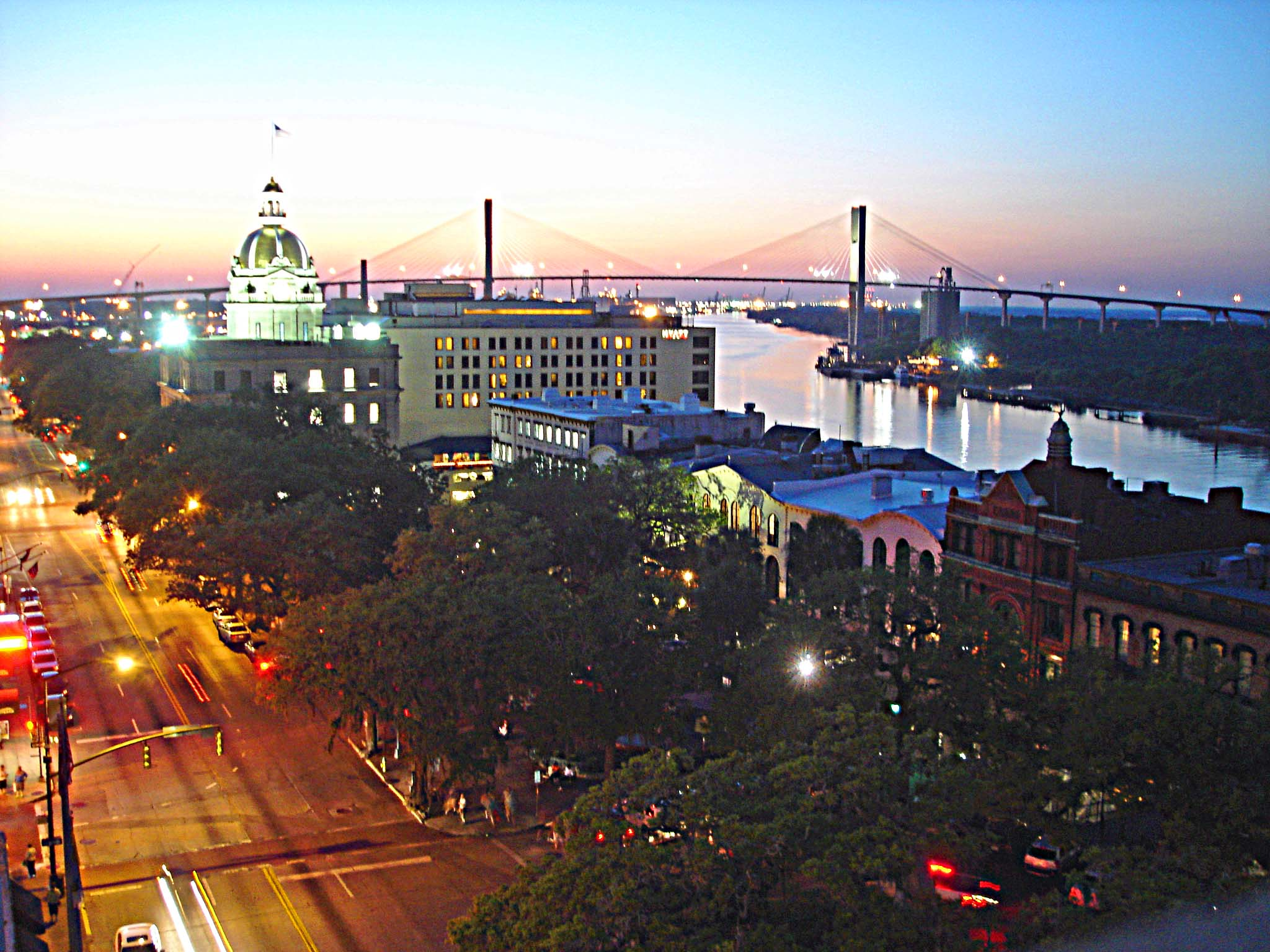 Evening rooftop view of Savannah, Georgia, U.S., taken near corner of Abercorn St and Bay St., looking northwest